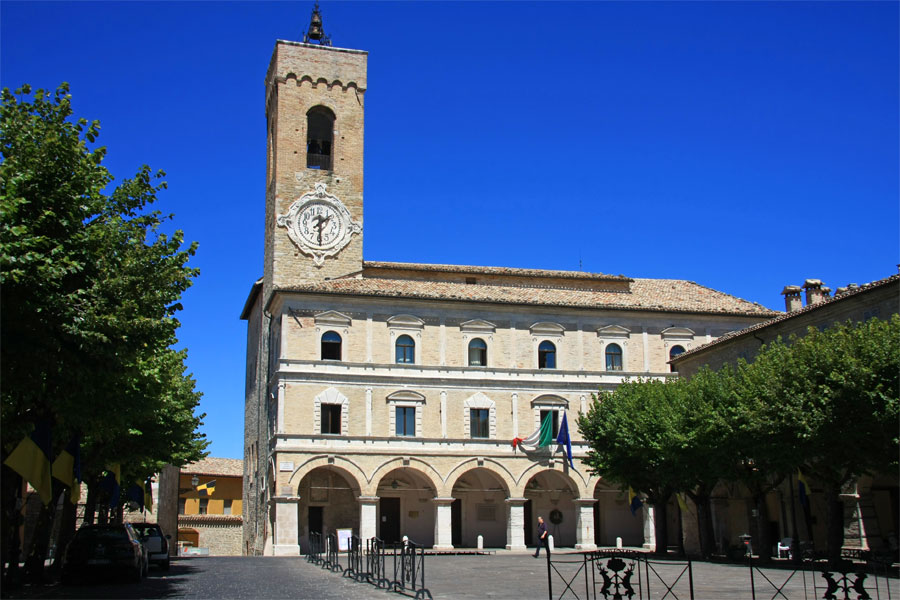 Town hall, Cingoli, Macerata, Italy